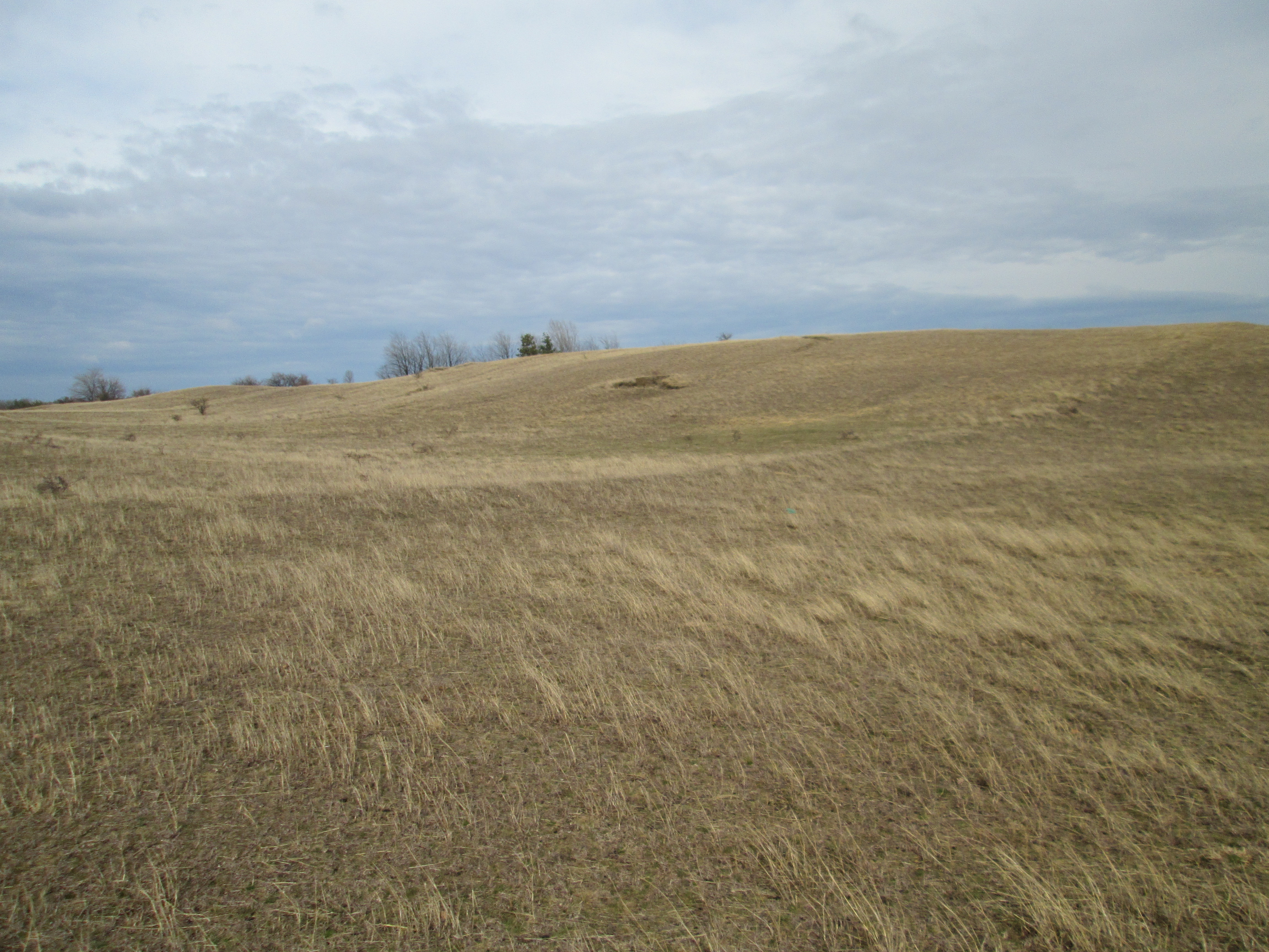 Special Nature Reserve Deliblatska peščara. Српски (ћирилица): Специјални резерват природе Делиблатска пешчара.